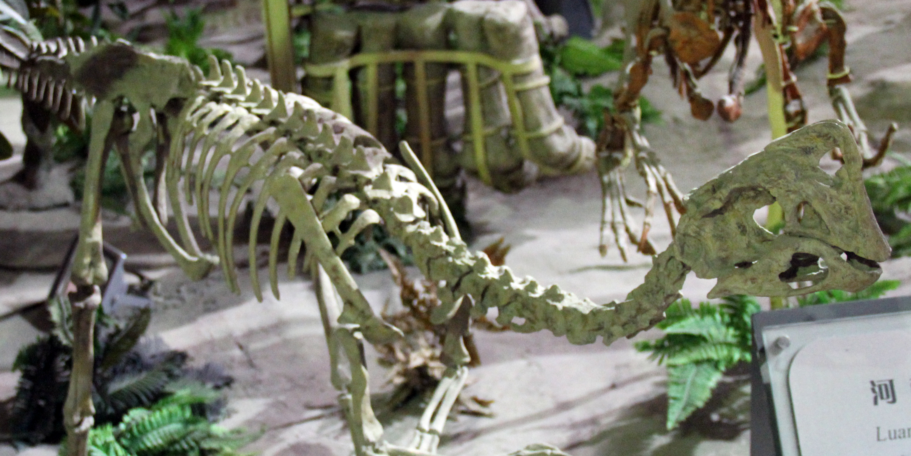 Henan Geological Museum, Zhengzhou, China. Complete indexed photo collection at .